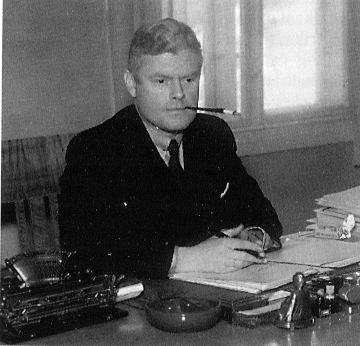 Norwegian World War II collaborationist police minister Jonas Lie as a pre-war police chief.